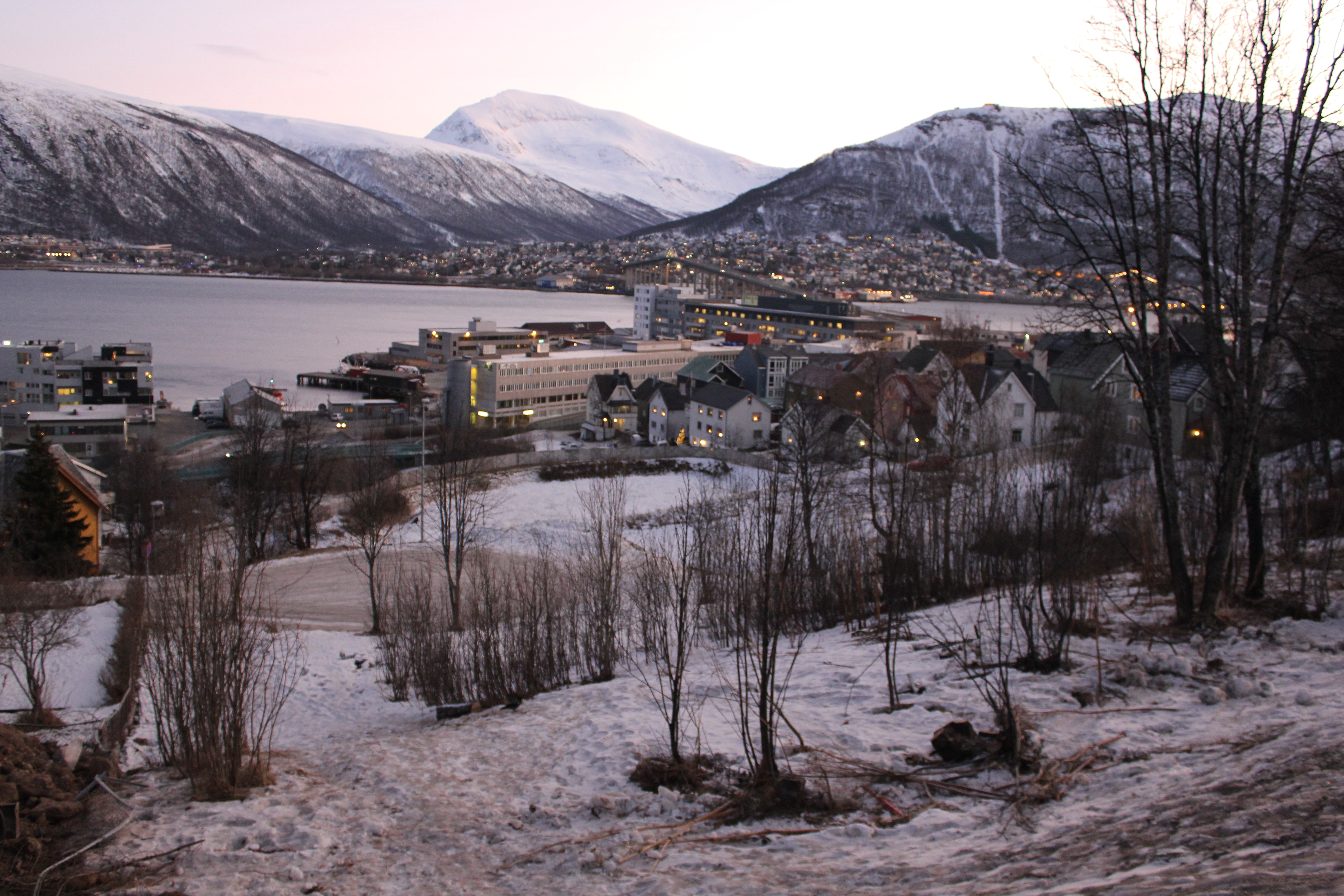 Skriverplassen park in Tromsø, Norway